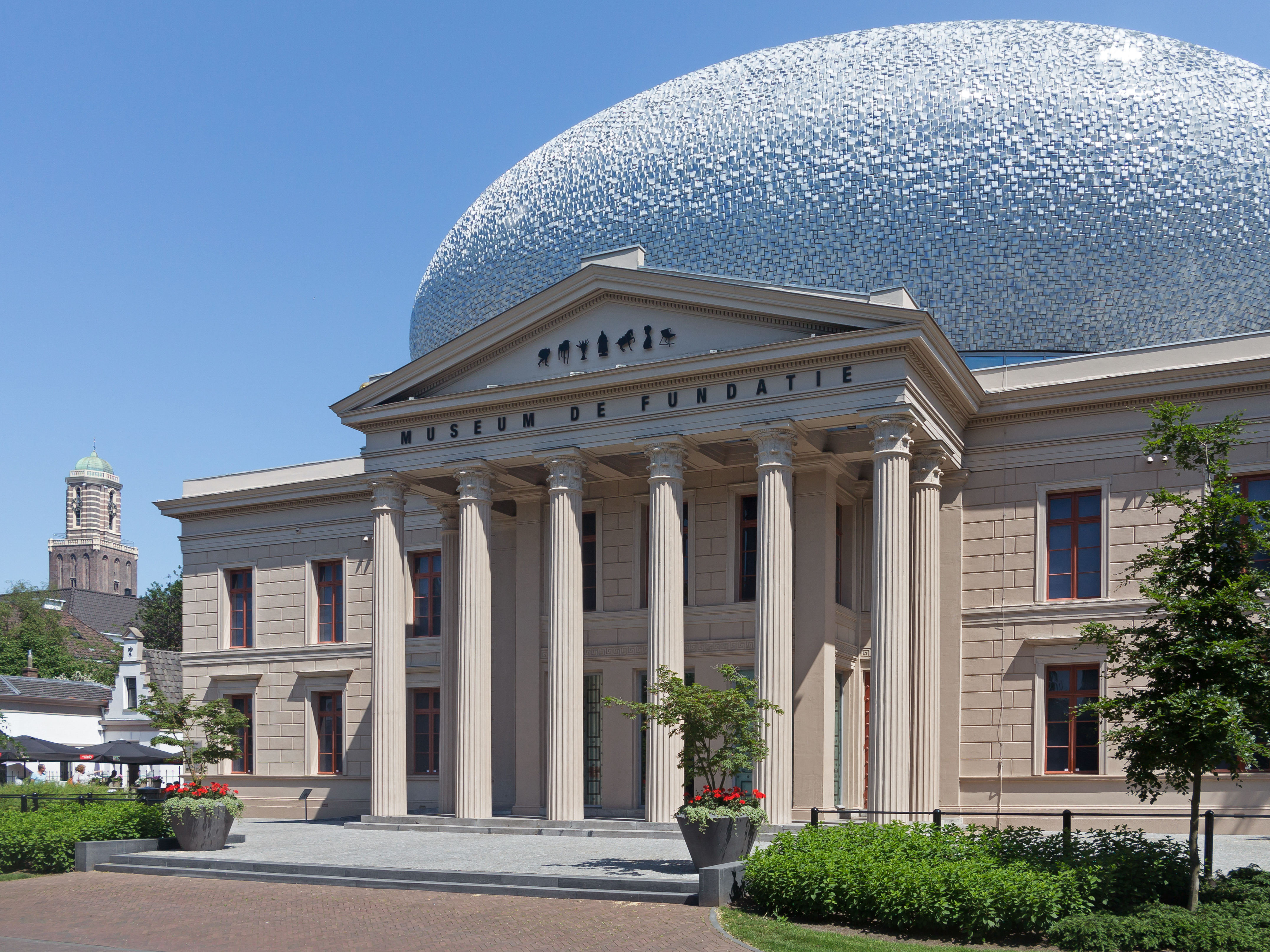 Zwolle, museum (Museum de Fundatie) with church tower in the background